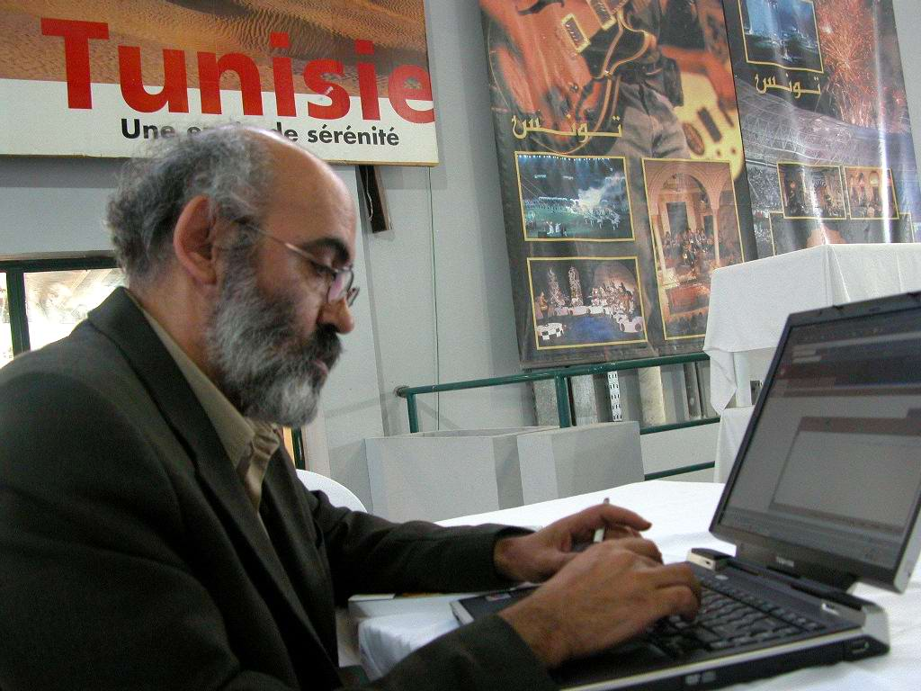 Dr, youness shokrkhah